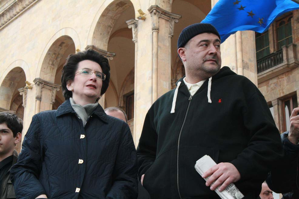 Opposition leaders: Nino Burdjanadze & Levan Gachechiladze